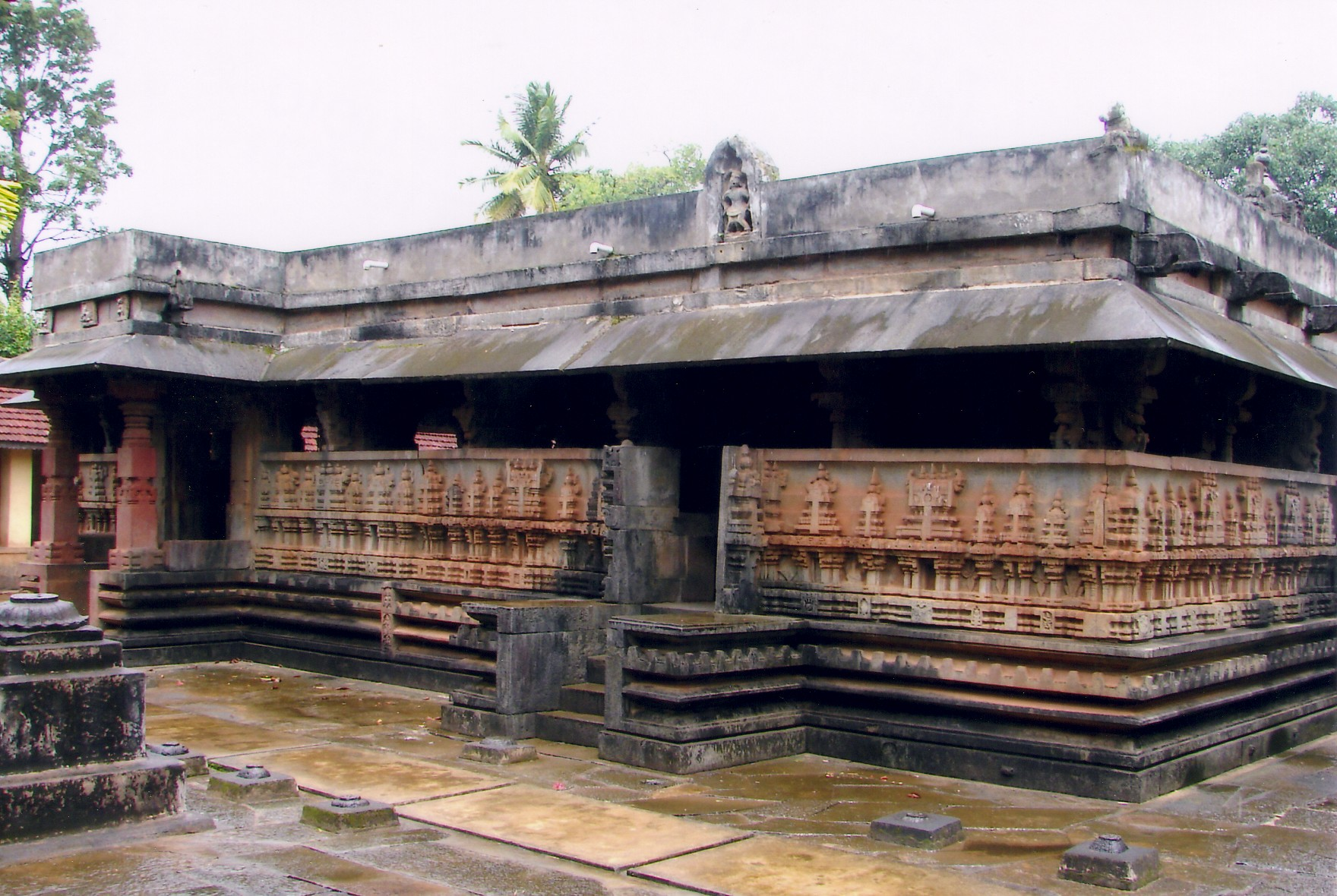 Photographed by self (Dinesh Kannambadi) in Keladi at the Rameshwara temple, Shivamogga district, Karnataka, India